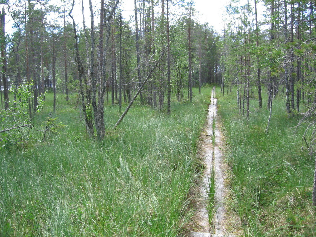 A path at Tiilikkajärvi National Park, Finland